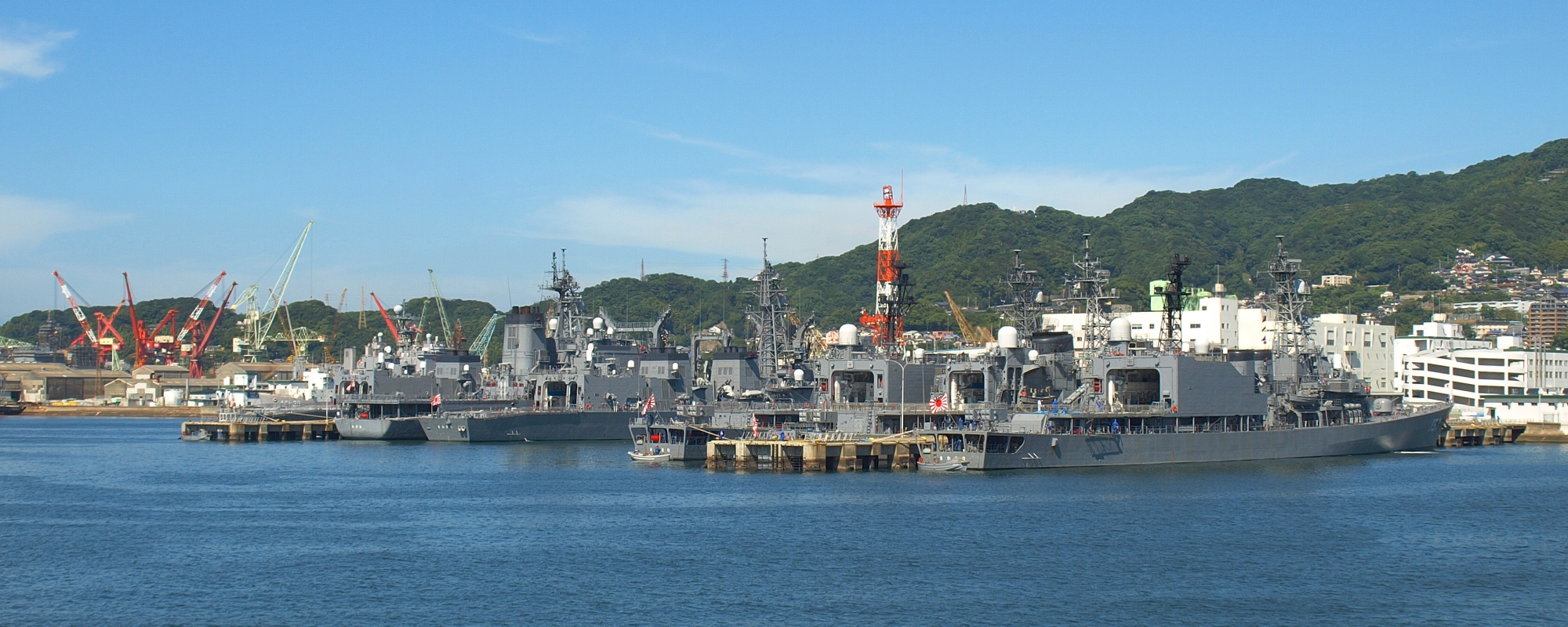 An oiler and 4 destroyers of the JMSDF moored at Tategami Pier, Sasebo. To the right is JS Sawagiri (DD-157).